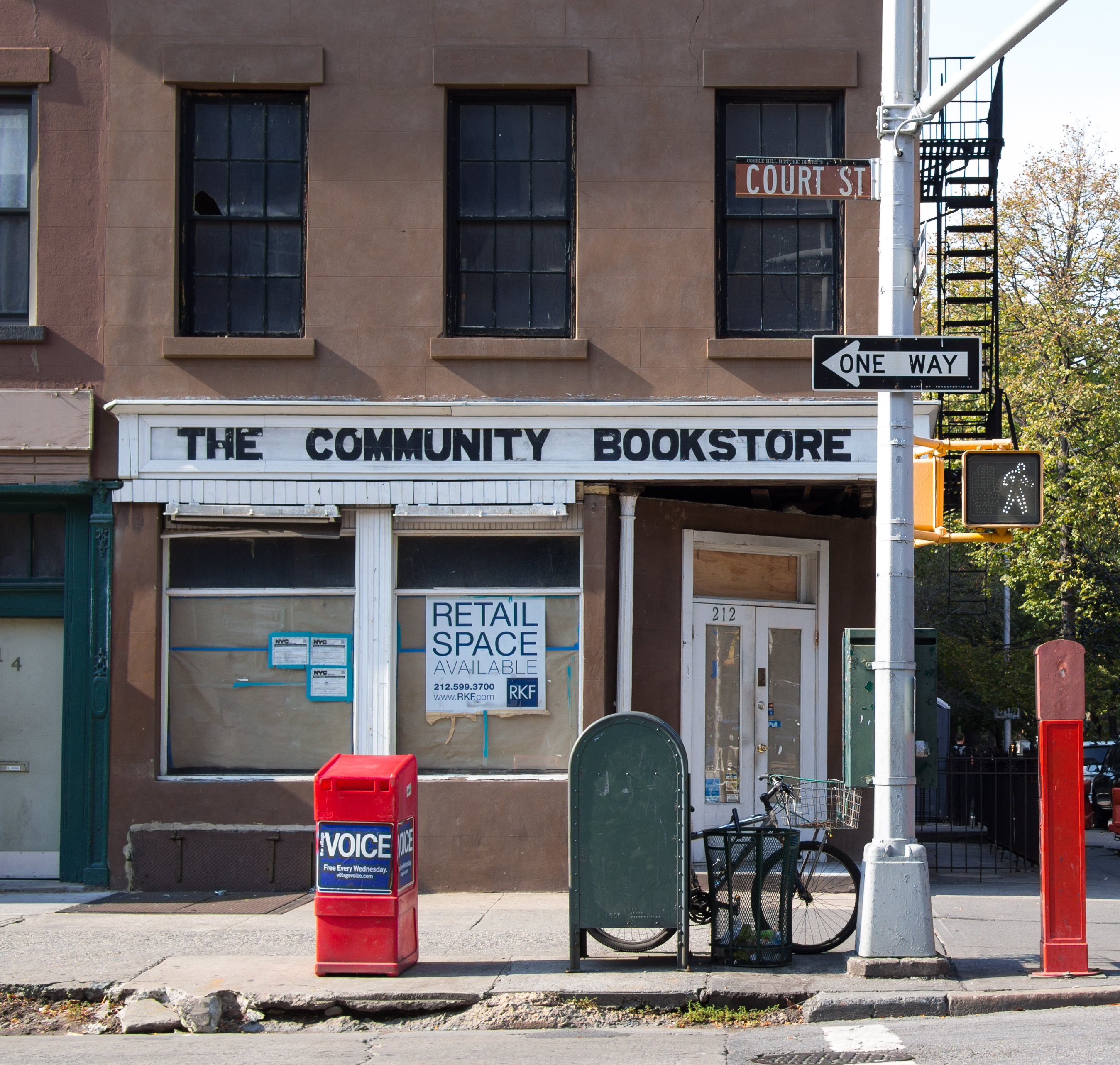 Community Bookstore on Court Street in Cobble Hill, Brooklyn.